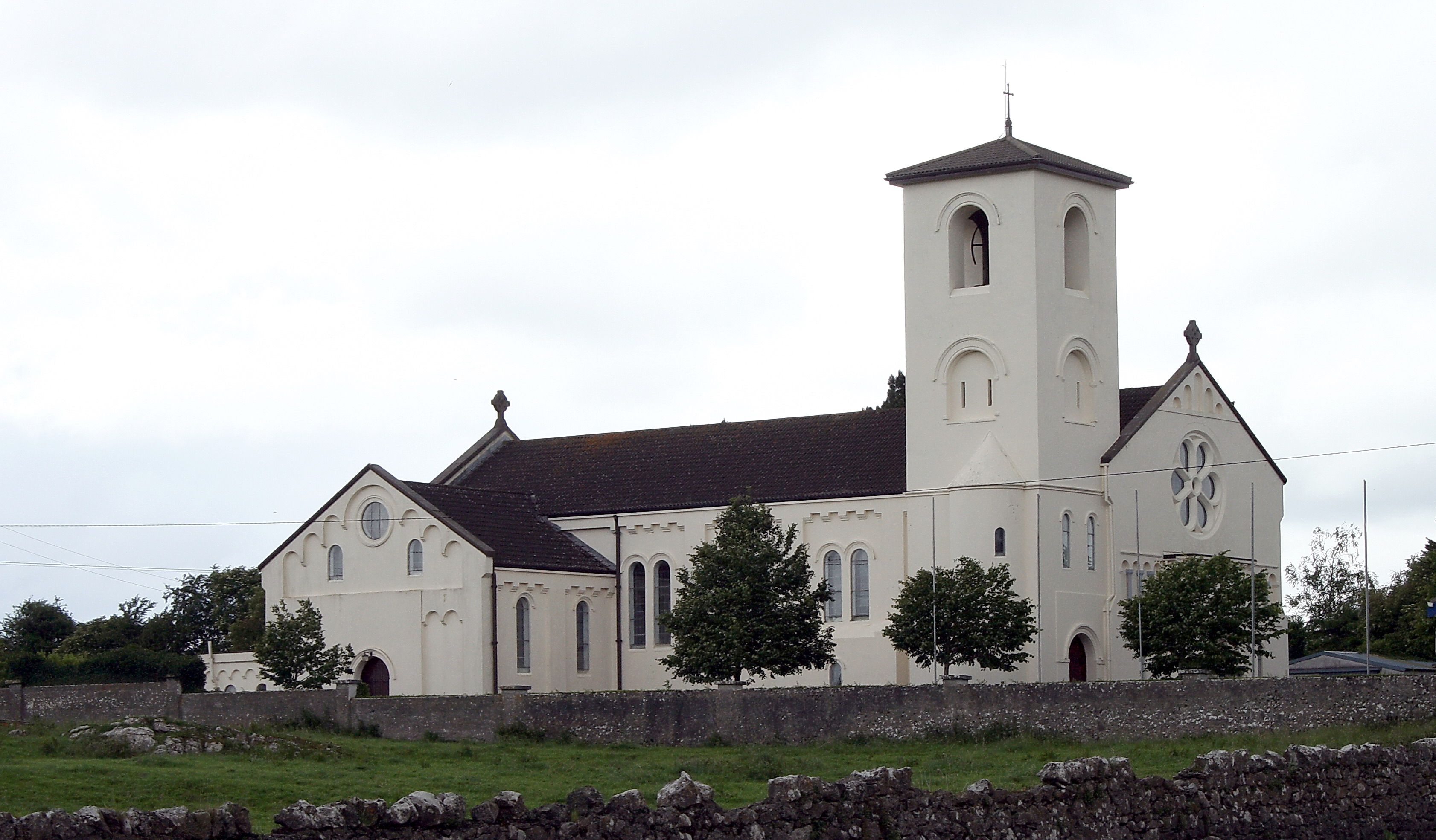 Corpus Christi Roman Catholic Church, Mount Temple, County Westmeath.